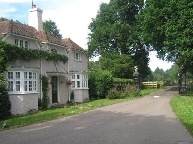 Lees Court Lodge and Entrance to Lees Court This lodge house is on Lees Court Road, beside the access road to Lees Court.